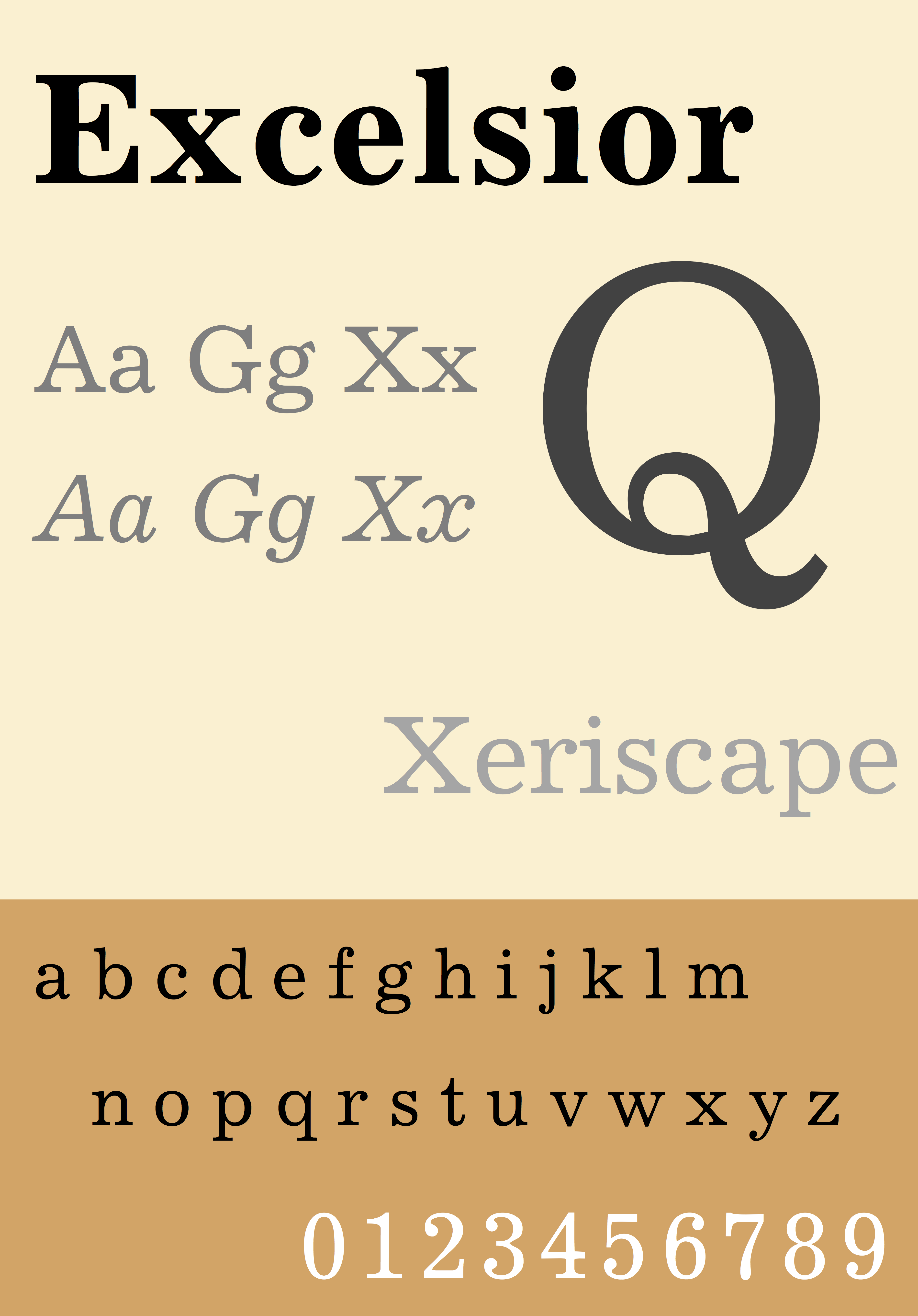 Sample image for the typeface Excelsior